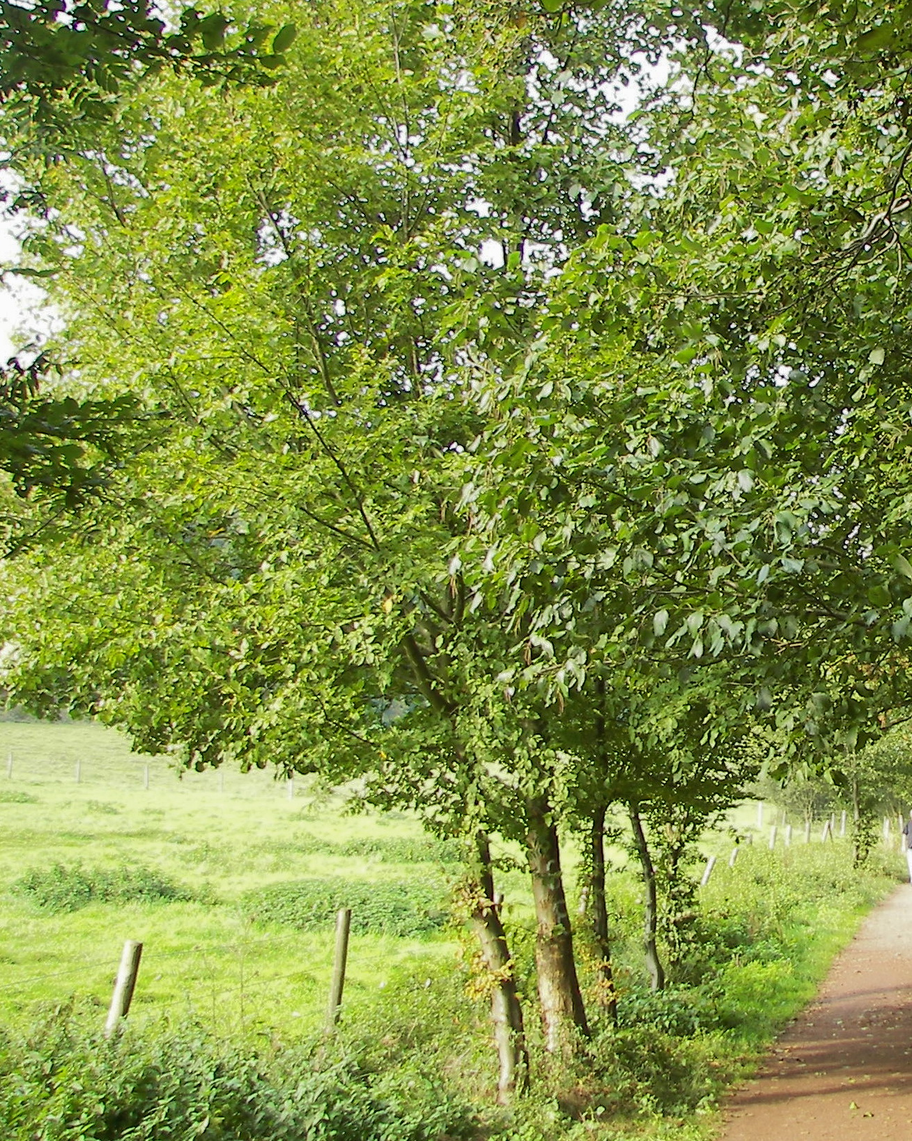 Grey Alder (Alnus incana), near the Laacher See, Germany